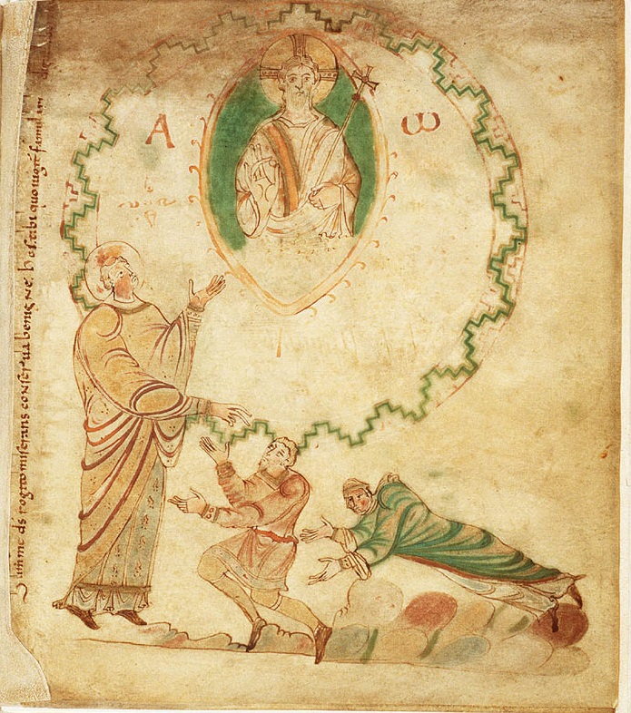 Fol. 215r of the Egmond Gospels. Dirk II and his wife Hildegard imploring St Adelbert their intercessor with Christ